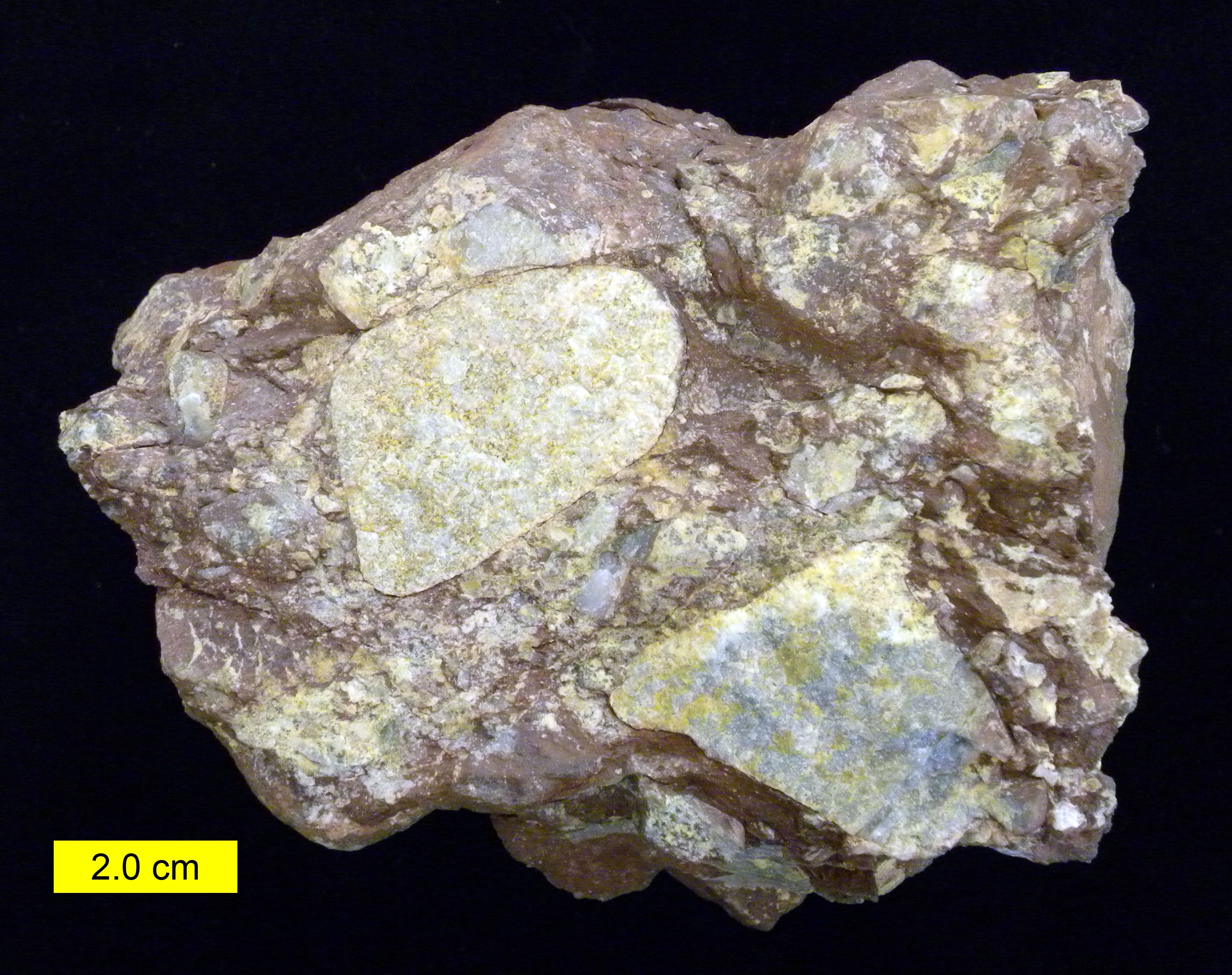 New Oxford Conglomerate (Upper Triassic) of York County, Pennsylvania, ‘Gettysburg Basin series’ of the Newark Supergroup, now entirely incorporated in the Chatham Group.